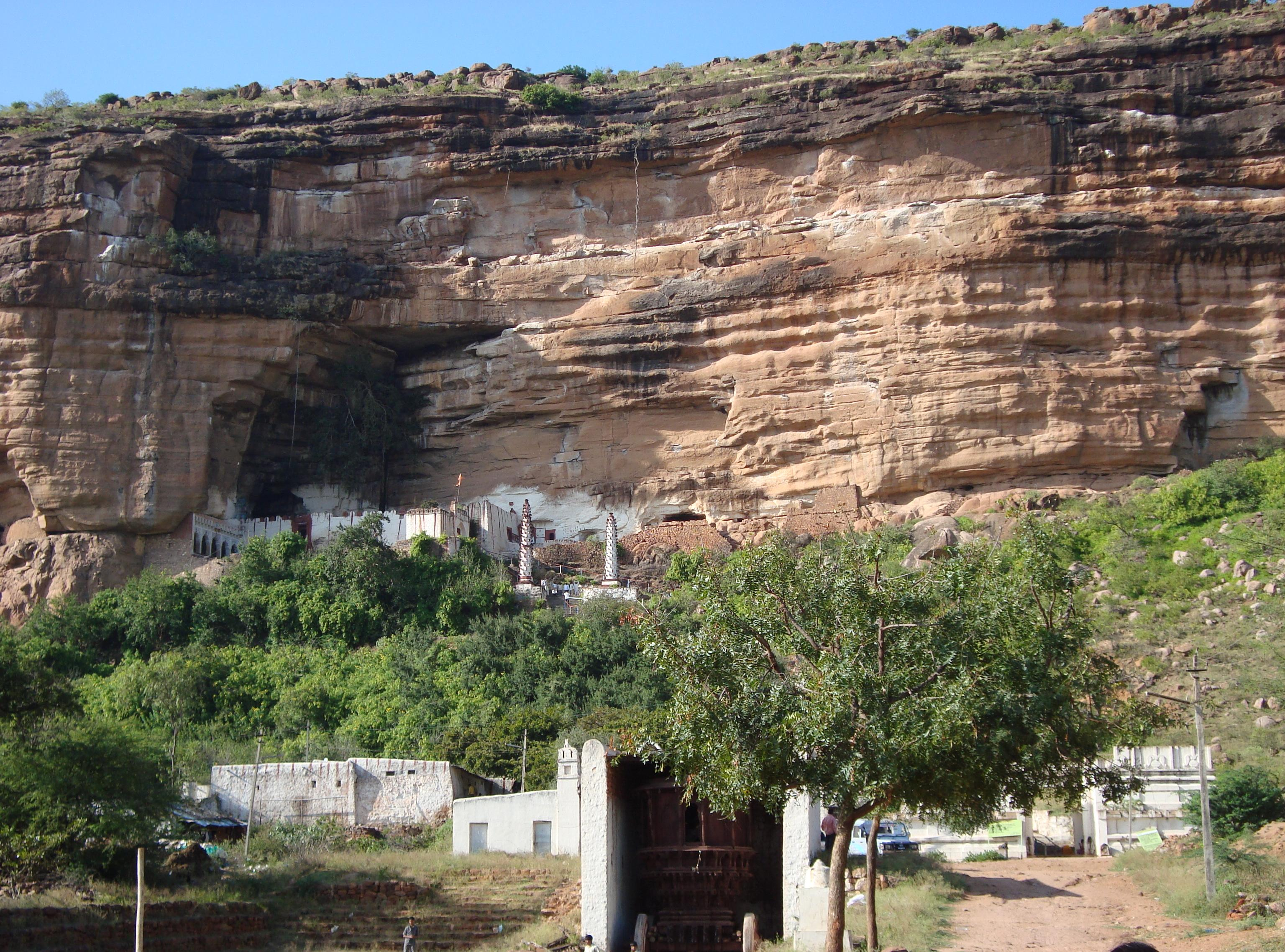 Gajendrgad Kalkaleshwara temple.